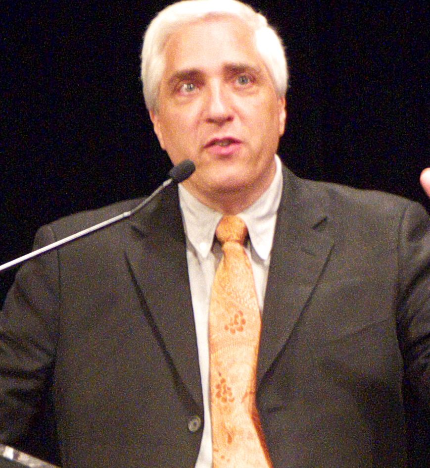 Steve Novella at TAM2013 Introducing the panel Medical Cranks and Quacks